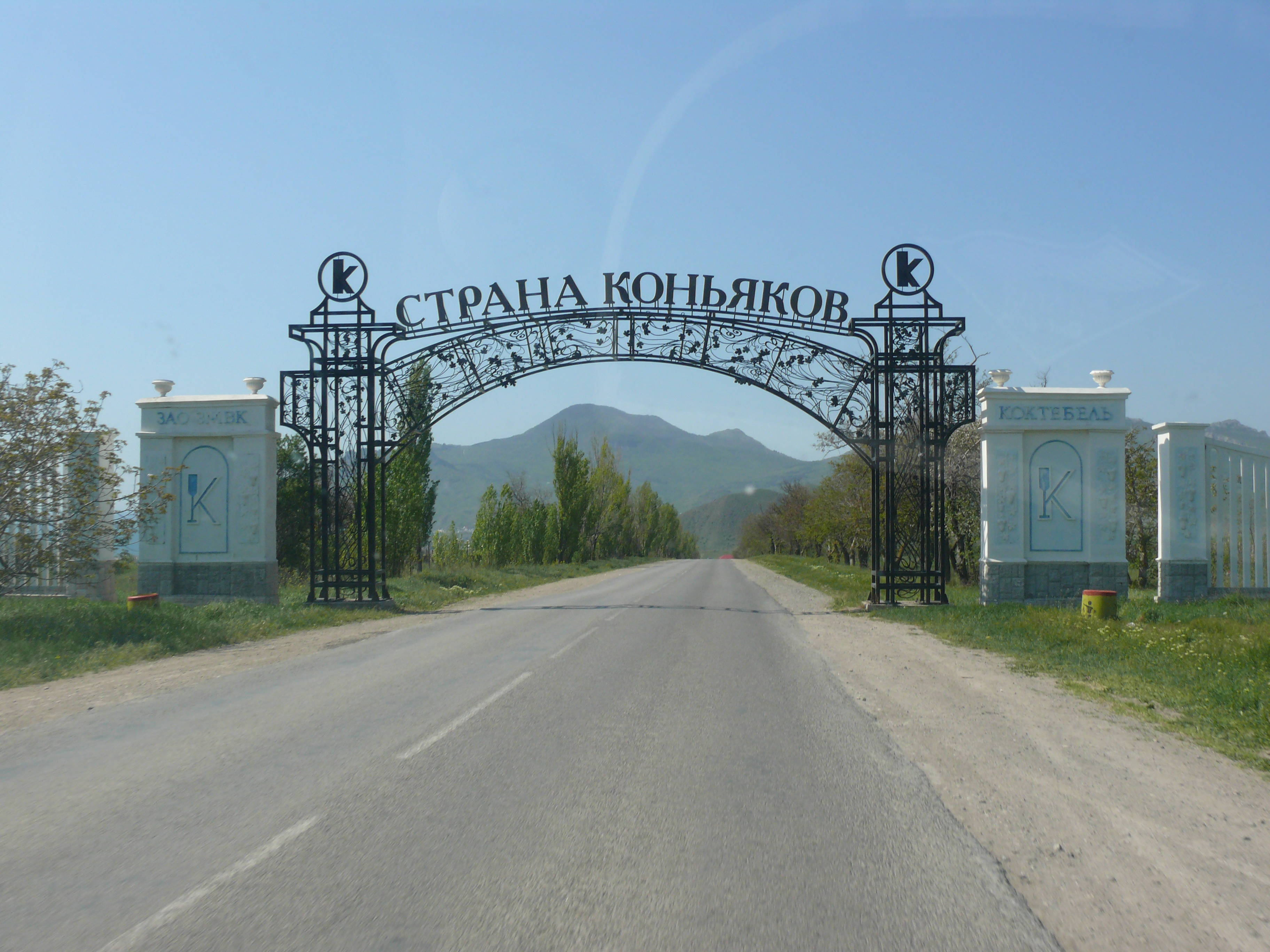 Crimea, Ukraine. The arc "The Land of Cognacs" over the road to Koktebel